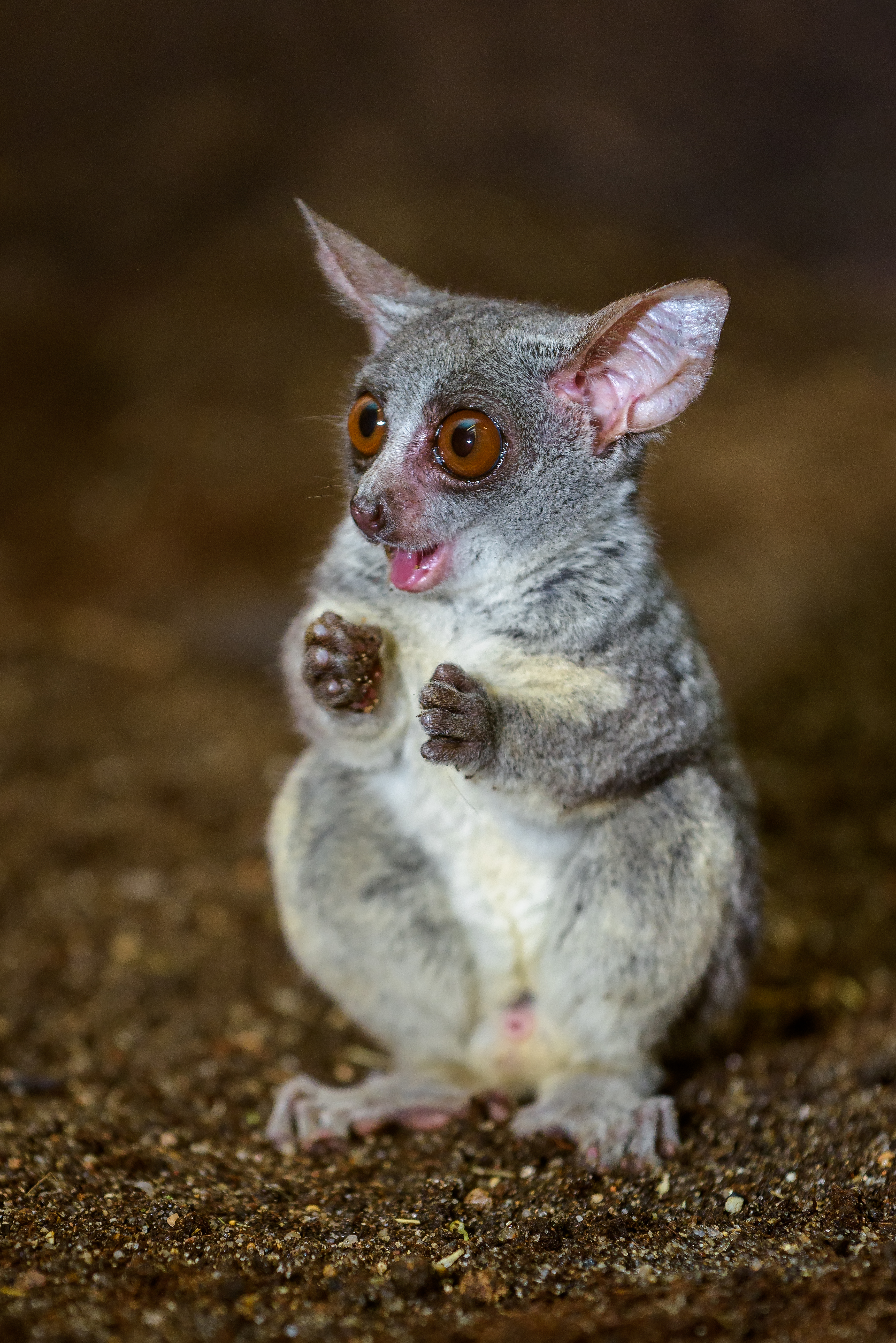 Senegal bushbaby in Prague Zoo